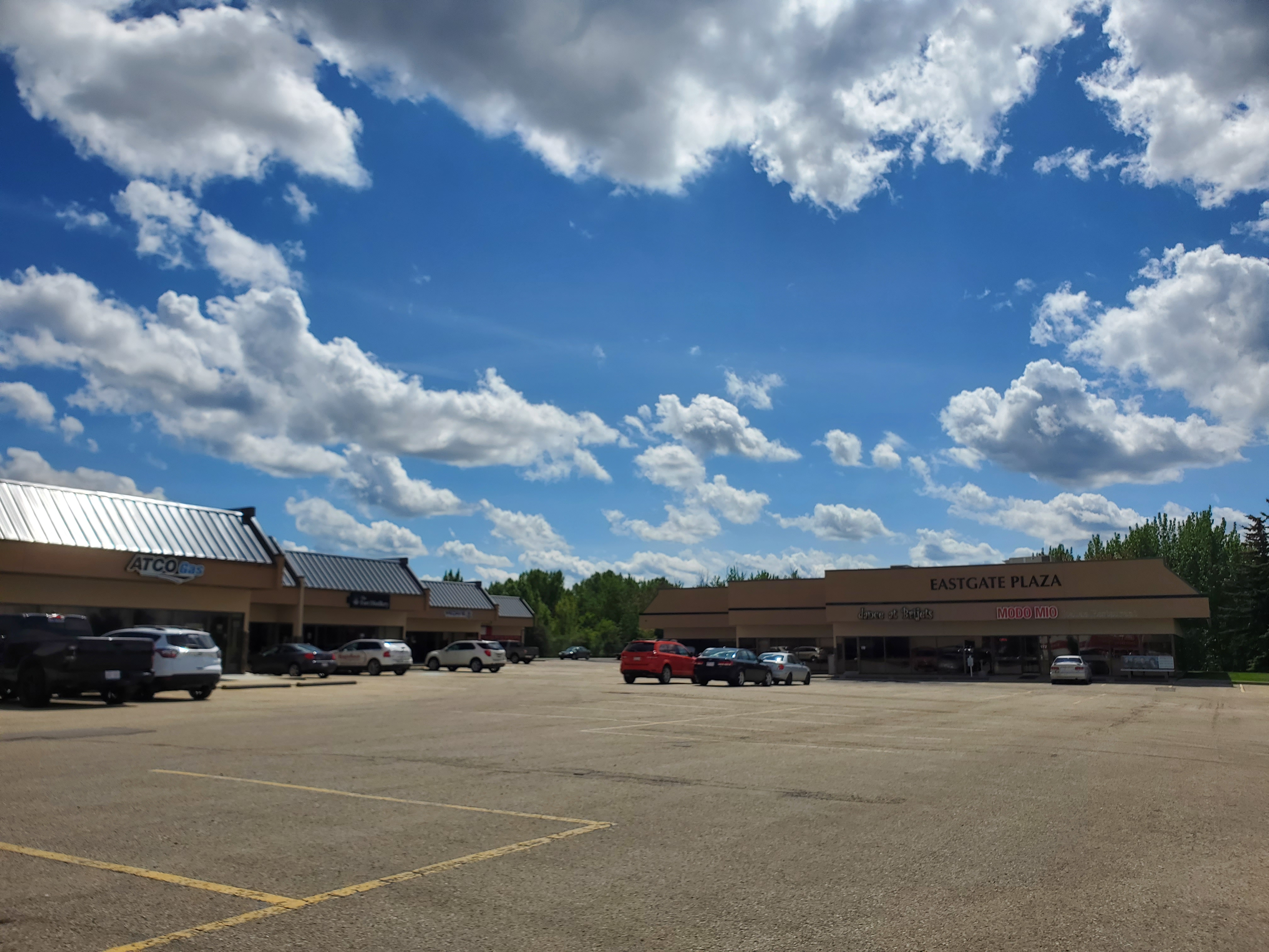 Commercial buildings in the Eastgate Business Park, in Fort Saskatchewan, Alberta